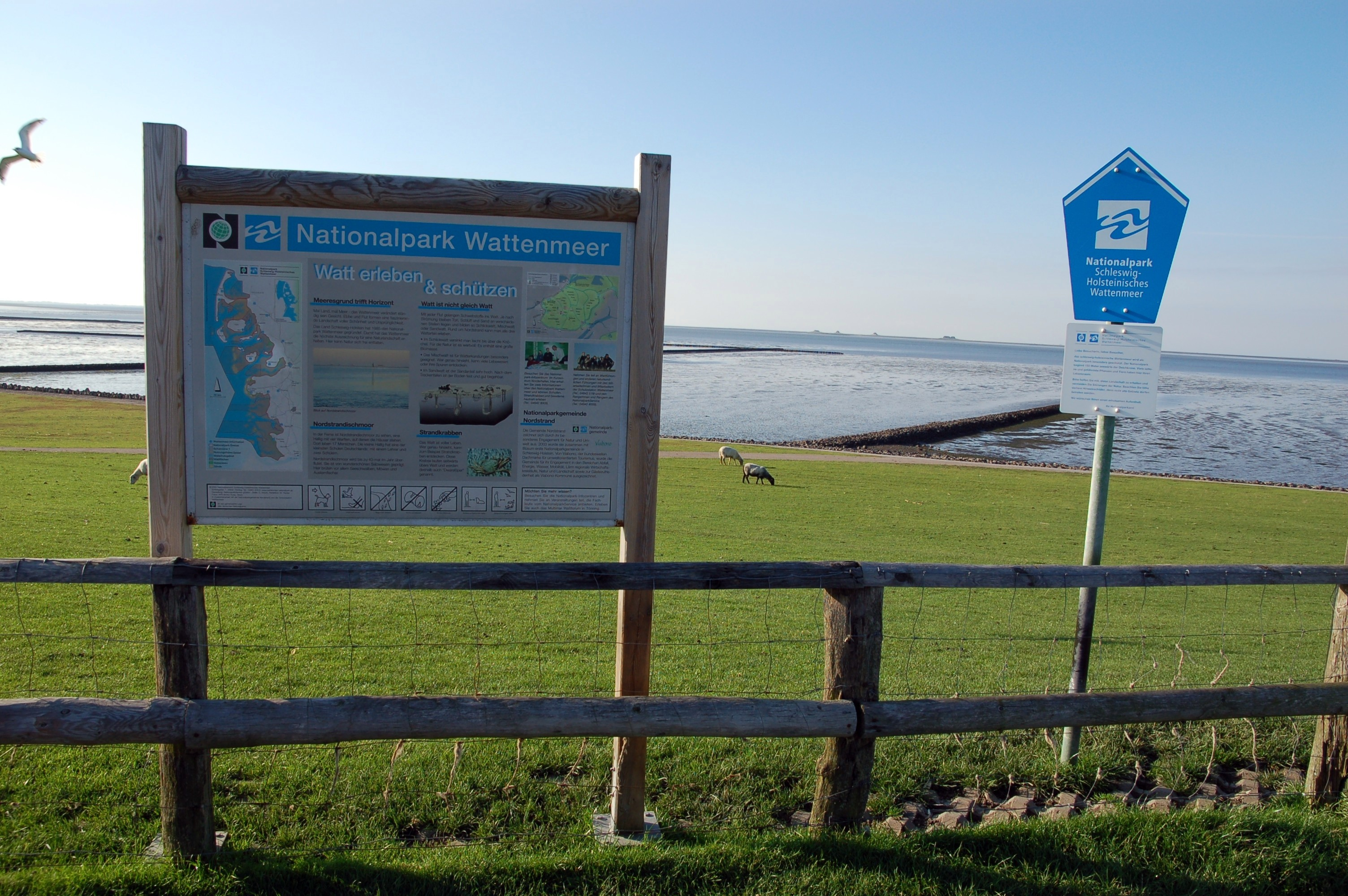 Nordstrand, Germany